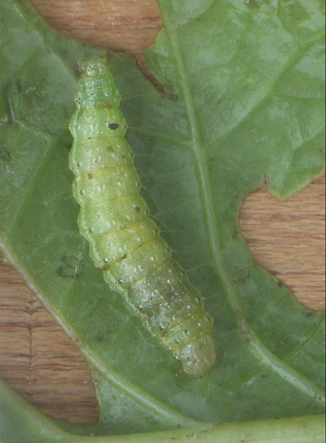 (nl: Koolbladroller Clepis spectrana op boerenkool) Clepis spectrana on Curly kale